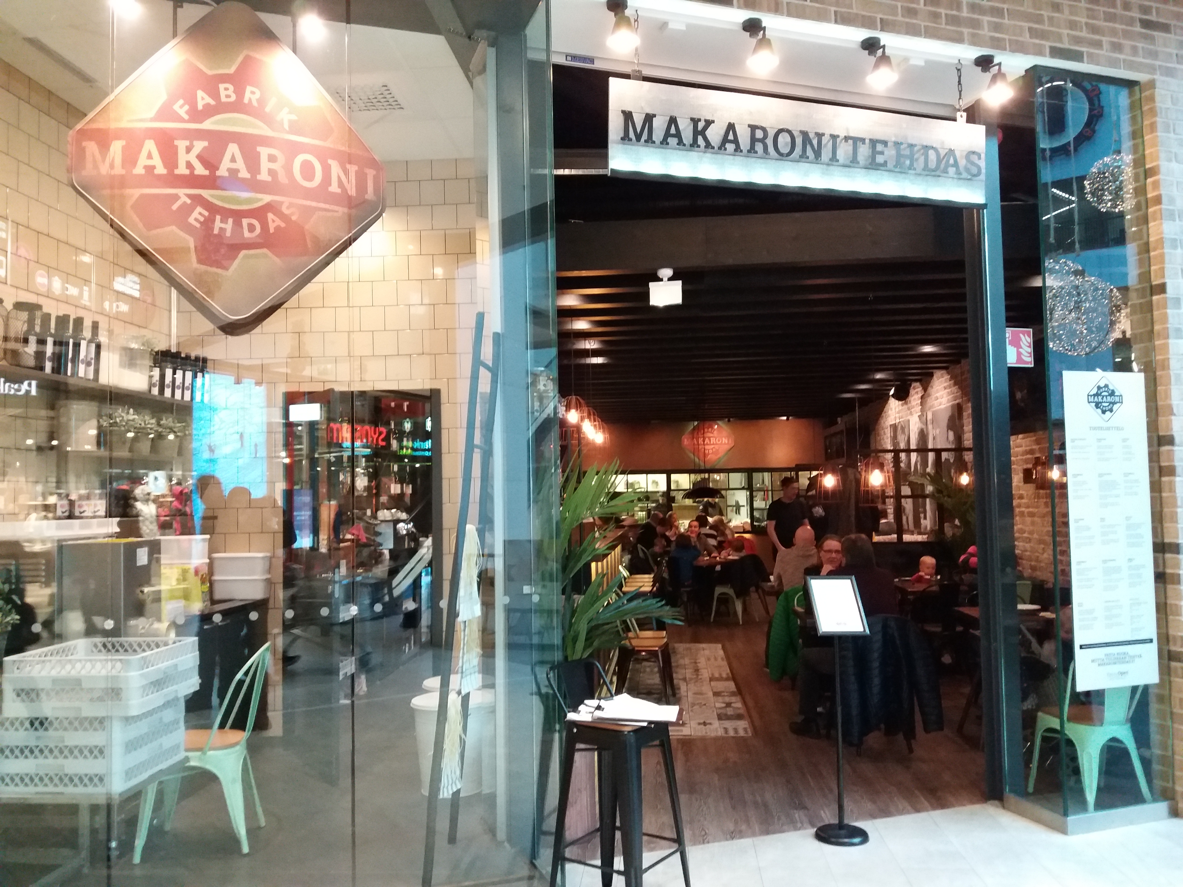 Makaronitehdas pasta restaurant in Iso Omena shopping mall, Espoo, Finland